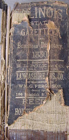 RL Polk & Co. publication